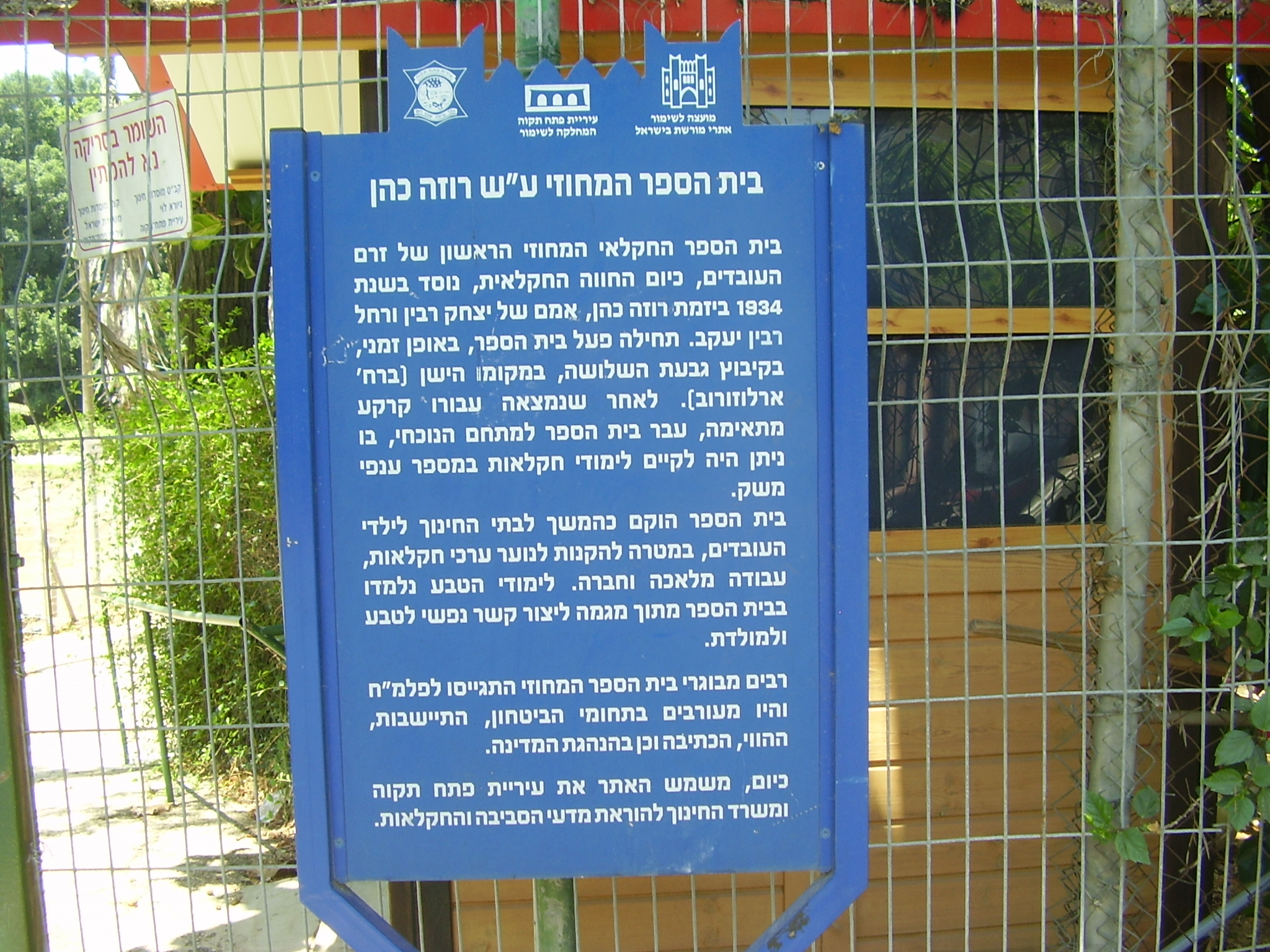 agriculture school in petah tikva, israel שלט שימור אתרים בכניסה לחווה החקלאית בפתח תקווה שבה היה בעבר בית הספר המחוזי ע"ש רוזה כהן